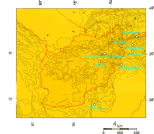 Mountain_passes_of_Afghanistan